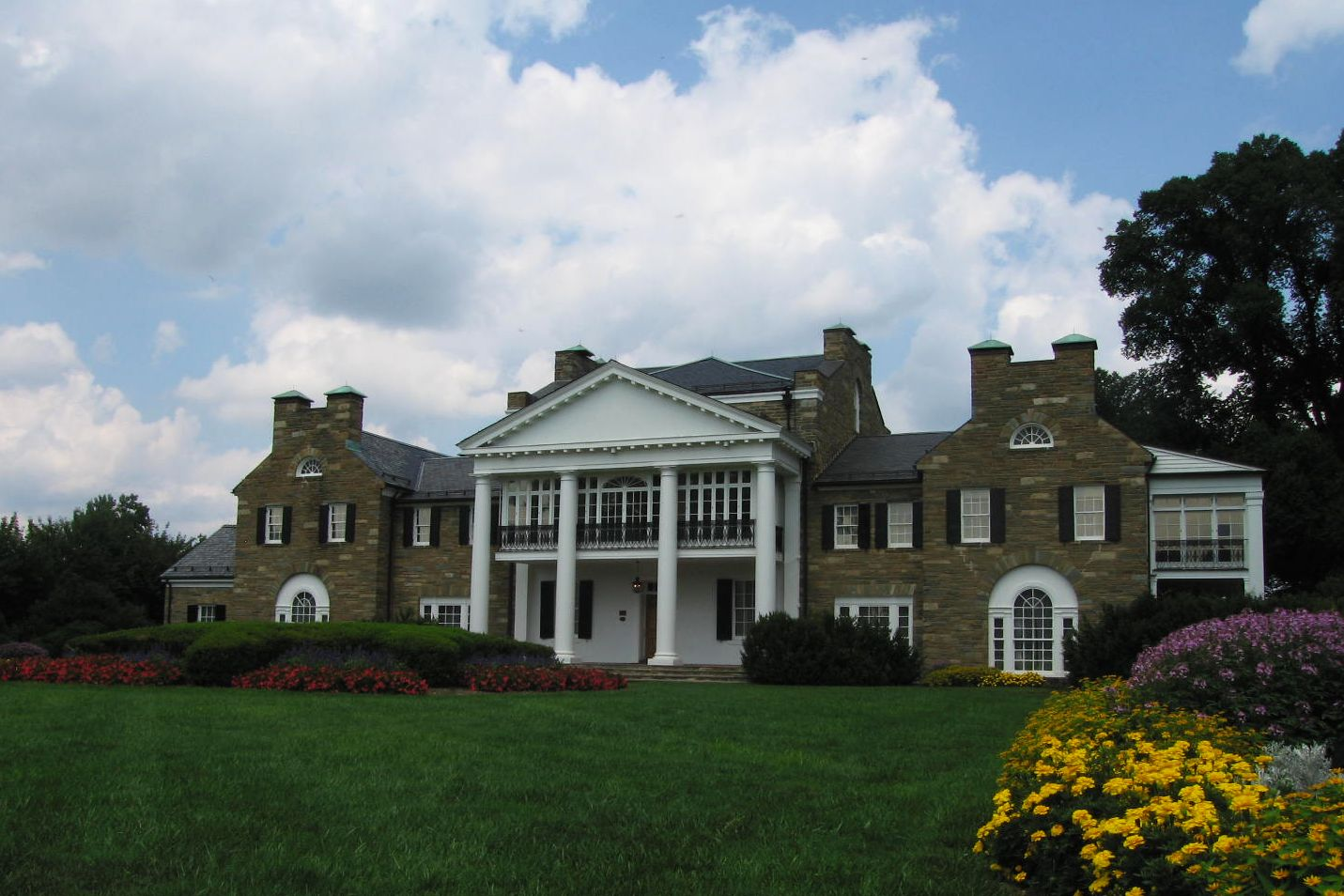 South facade of the Glenview Mansion, Civic Center Park, Rockville, MD, USA